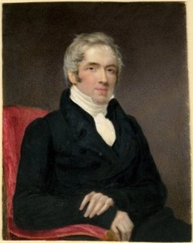 Moses Haughton Jr. (1774-1848) - Portrait of John Smith (1781-1855)